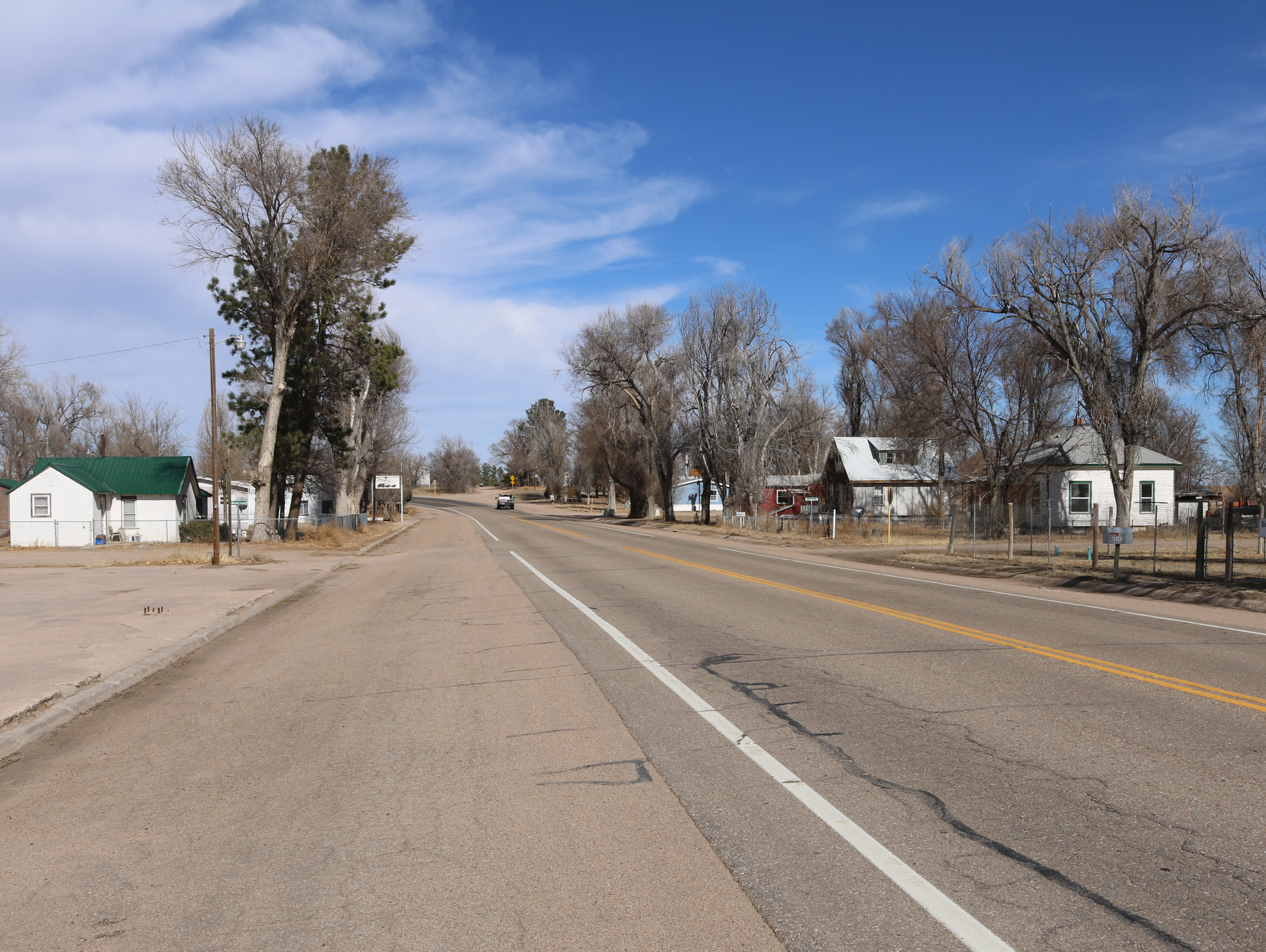 Cope, Colorado, an unincorporated community in Washington County. The road in the picture is U.S. Route 36.